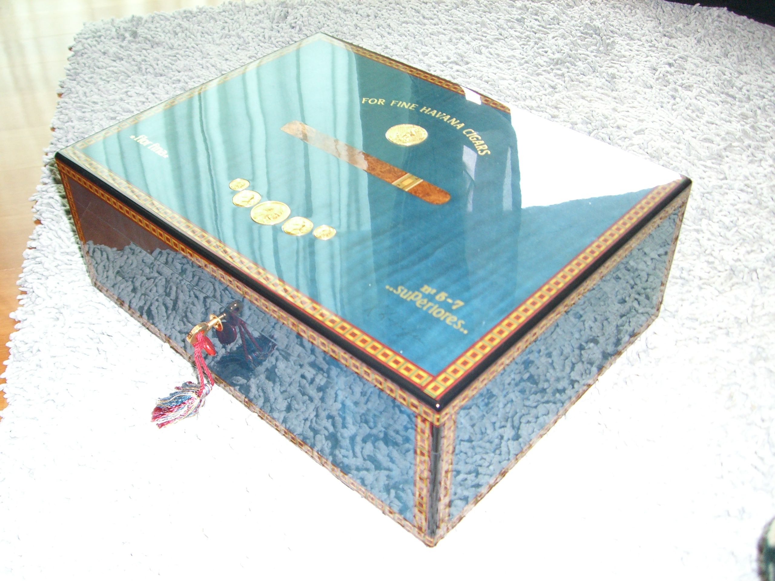 Picture of Elie Bleu Medailles Humidor taken by me.